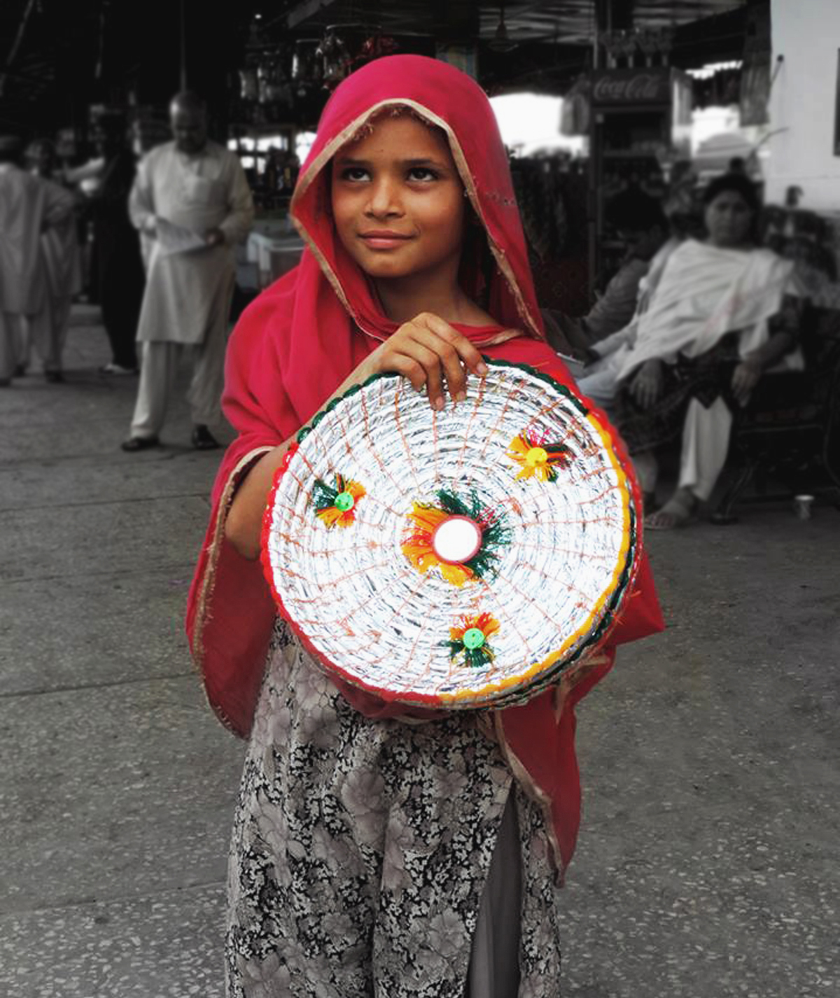 Beauty is not in the money or wealth, Beauty lies in her natural smile. Its a poor lower class girl belongs to the tribe of Interior Sindh, Pakistan. She sells these handcrafts at the railway junction of Kothri, Sakkhar.